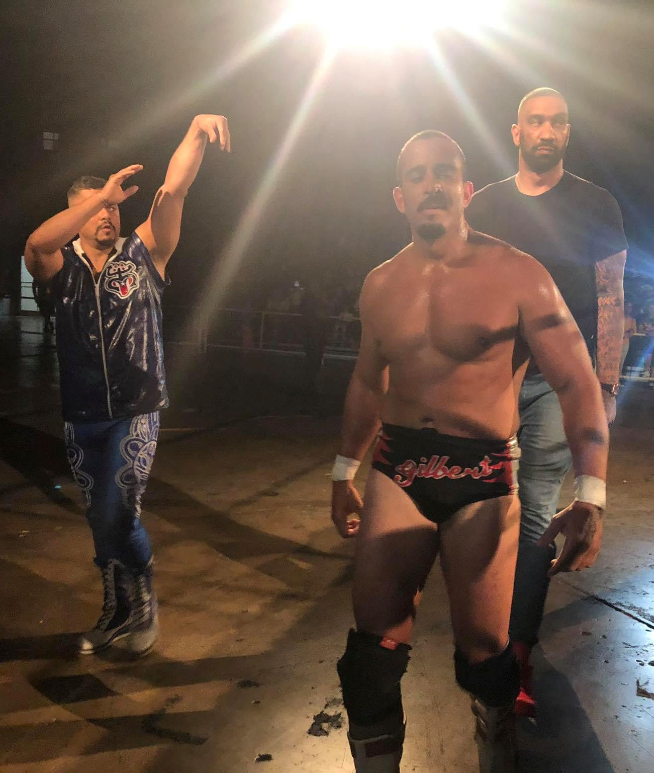 WWC The Dynasty